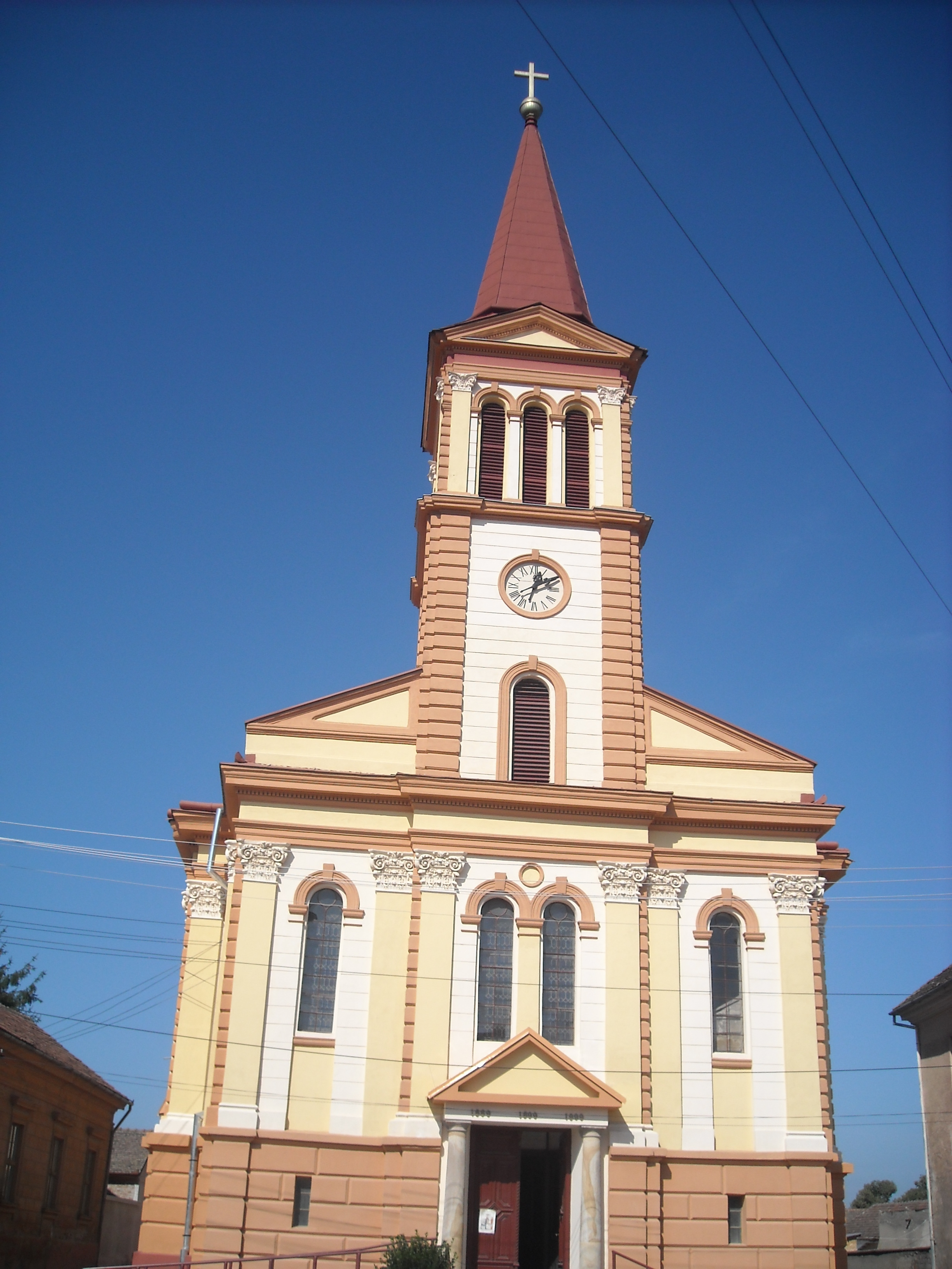 Roman Catholic church in Lipova (Lippa), Arad county, Romania